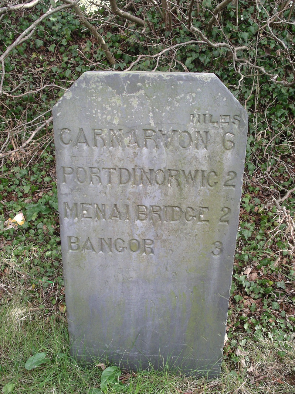 Slate Milestone at Parc Menai, Bangor. Location: Near Parc Menai roundabout. Technical data: Pentax Optio555 digital camera.